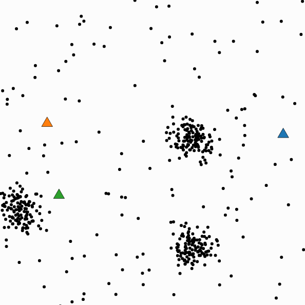 Kmeans wronginit1